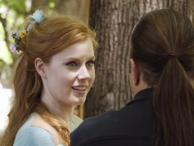 Actress Amy Adams